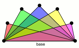 sample of a Graph Book